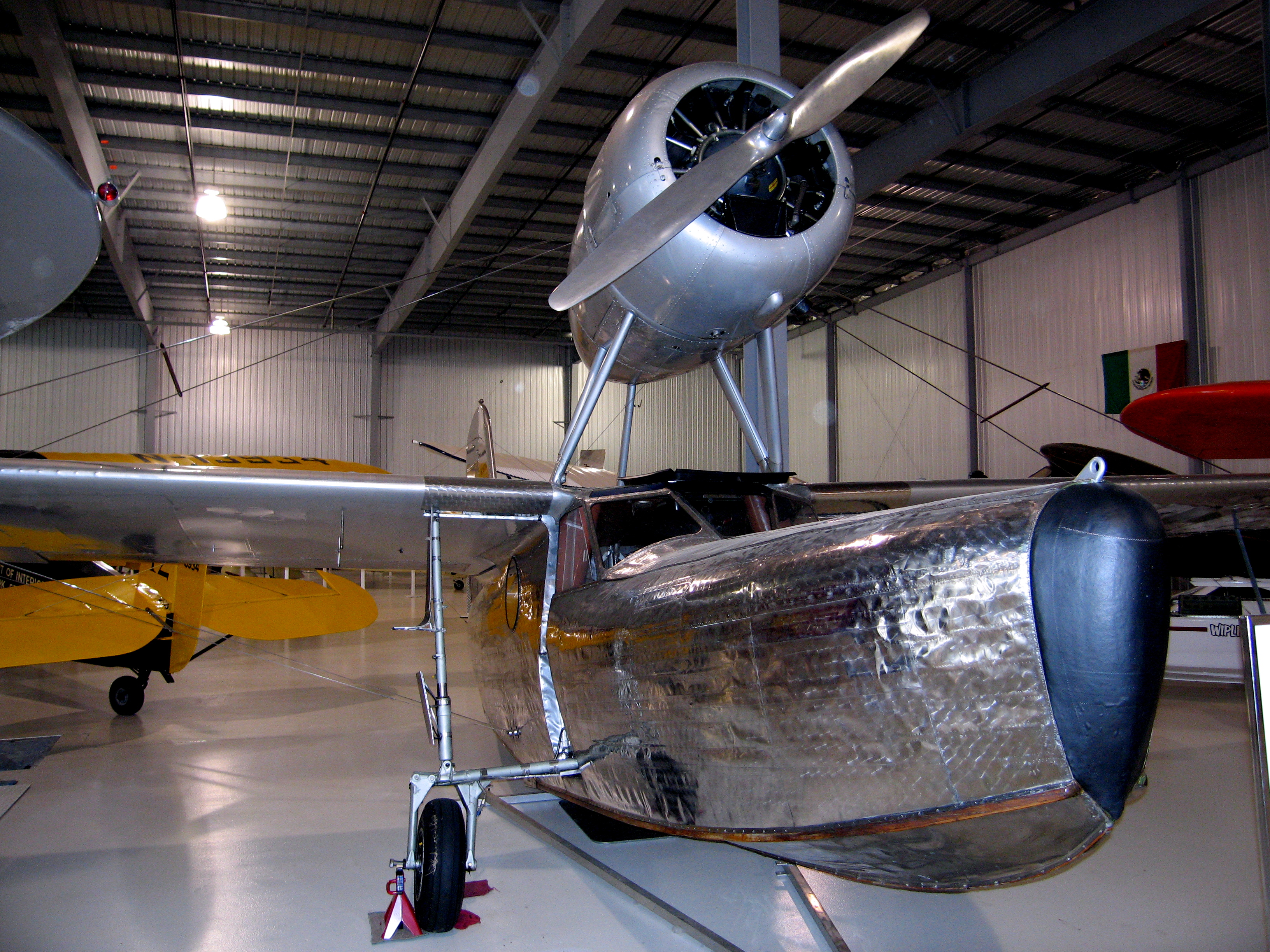 This plane could land using its landing gear or on the water. Weird looking, but cool.